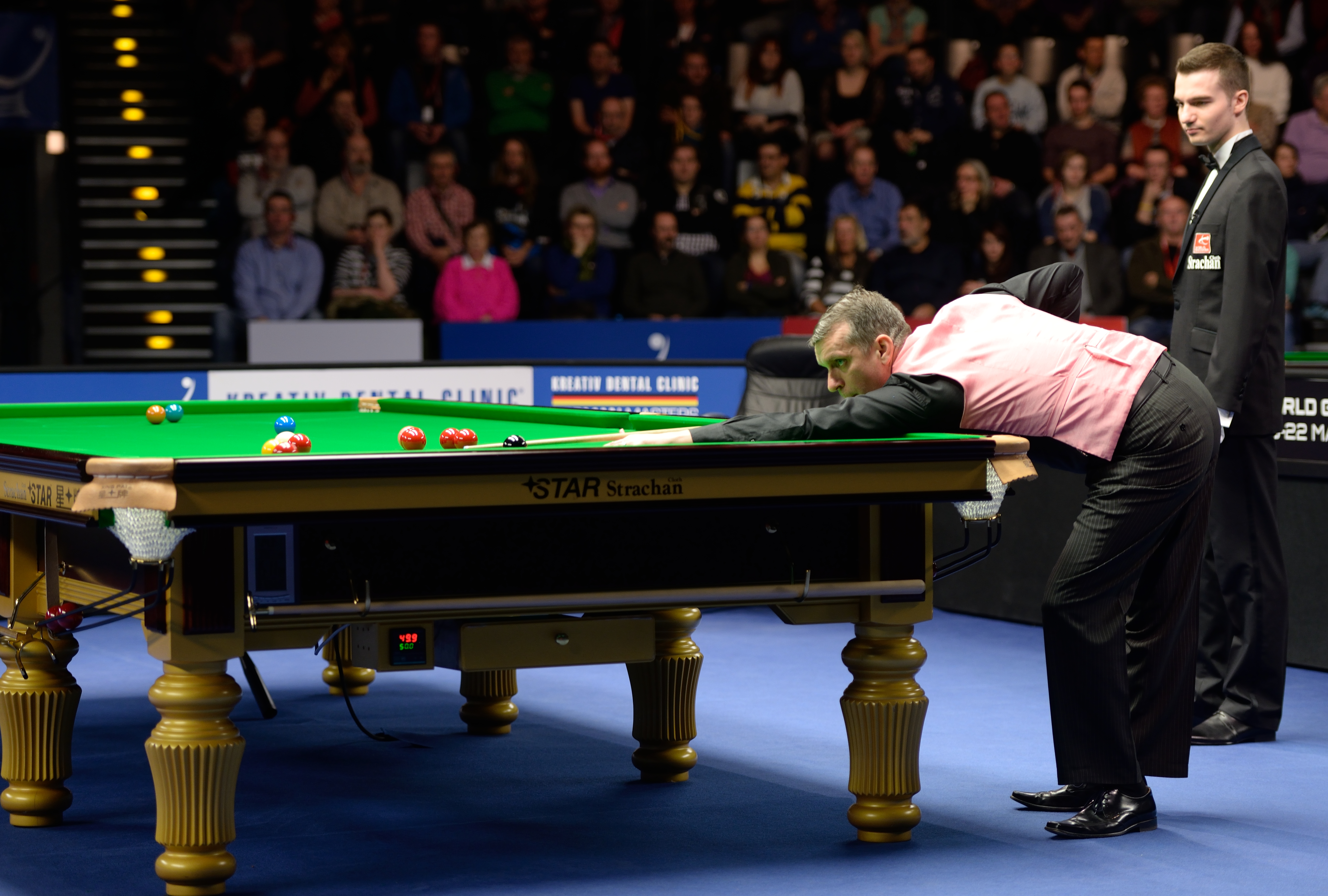 Picture taken in Berlin during the Snooker German Masters in 2015. Mark Davis, Marcel Eckardt.